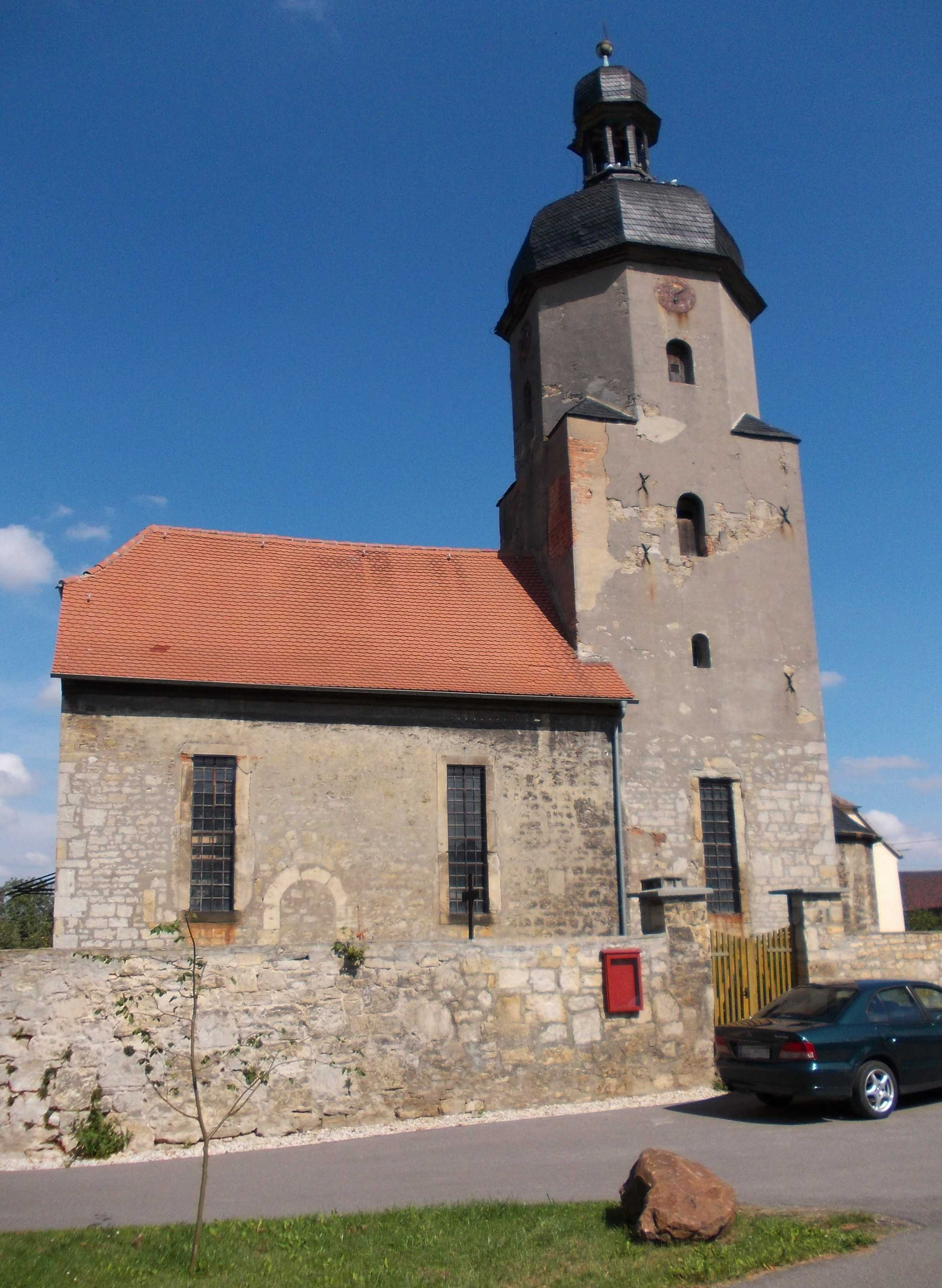 Molau church (Molauer Land, district of Burgenlandkreis, Saxony-Anhalt)